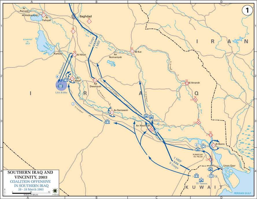 A map of the 2003 invasion of Iraq from March 20-28. For a legend see here: [1]